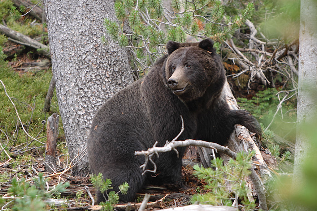 Female Black Grizzly Bear (Ursus arctos horribilis)